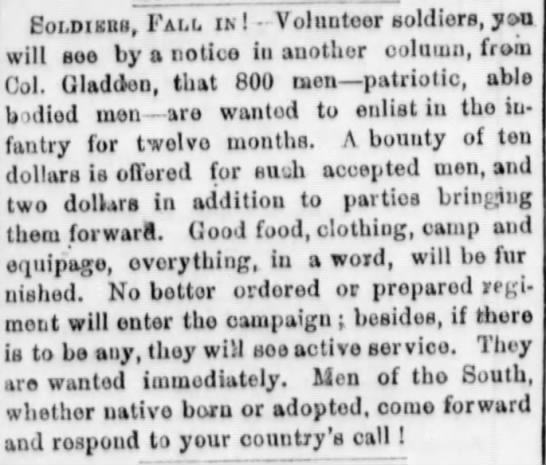 An item in a New Orleans newspaper exhorting men to enlist